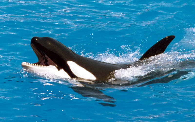 Shamu, an orca in Sea World, California